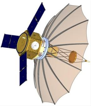 ORS-2 radar satellite (artist impression)